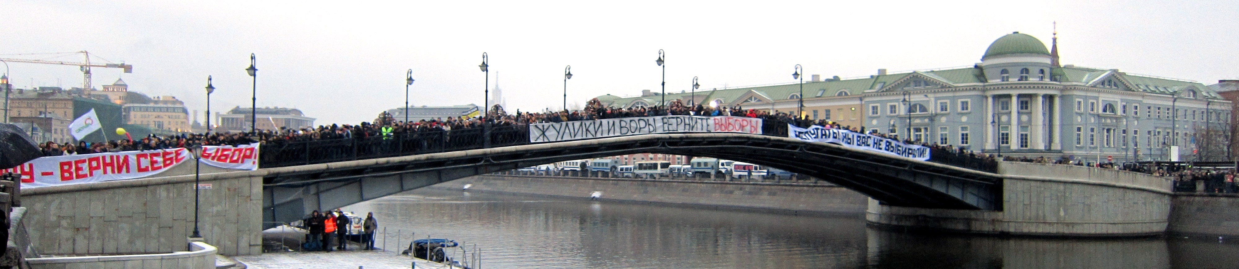 File:Moscow rally 10 December 2011, Luzhkov Bridge